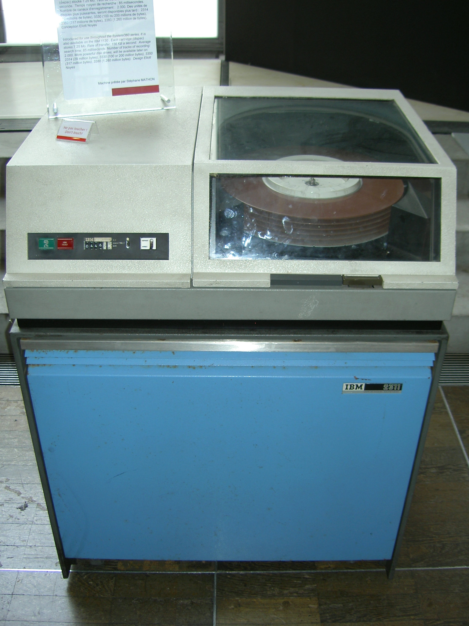 IBM 2311 memory unit (six platters, data transfer rate: 156 kB/s), 1964.